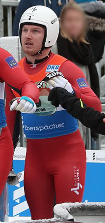 Luge World Cup Doubles in Winterberg: Pēteris Kalniņš